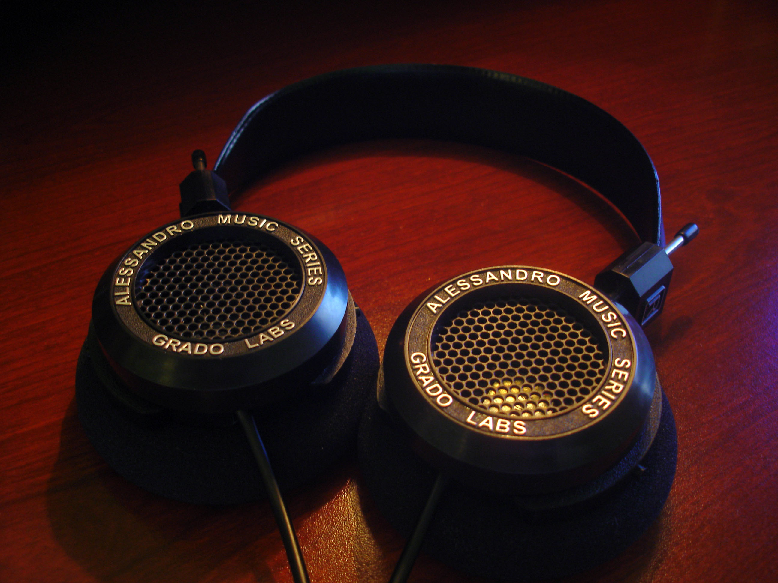 Alessandro Music Series Grado Labs Headphones